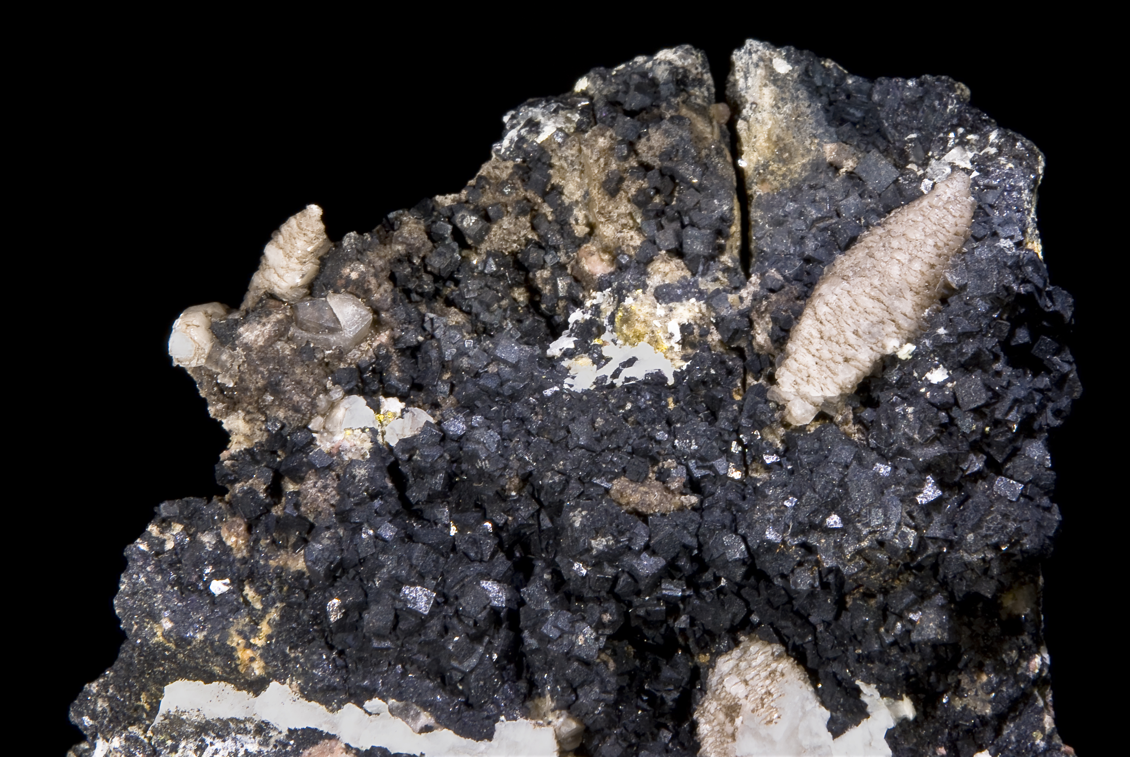 Antozonite (variety of fluorite, dark purple to black (mostly opaque), fluorine-containing gaseous state, by bombarding natural α rays in thorium-uranium deposits. The crushing of the material releases the gas with a smell of ozone) with calcite - Margnac Mine, Compreignac, Haute-Vienne, Limousin, France - (6x5.5cm)